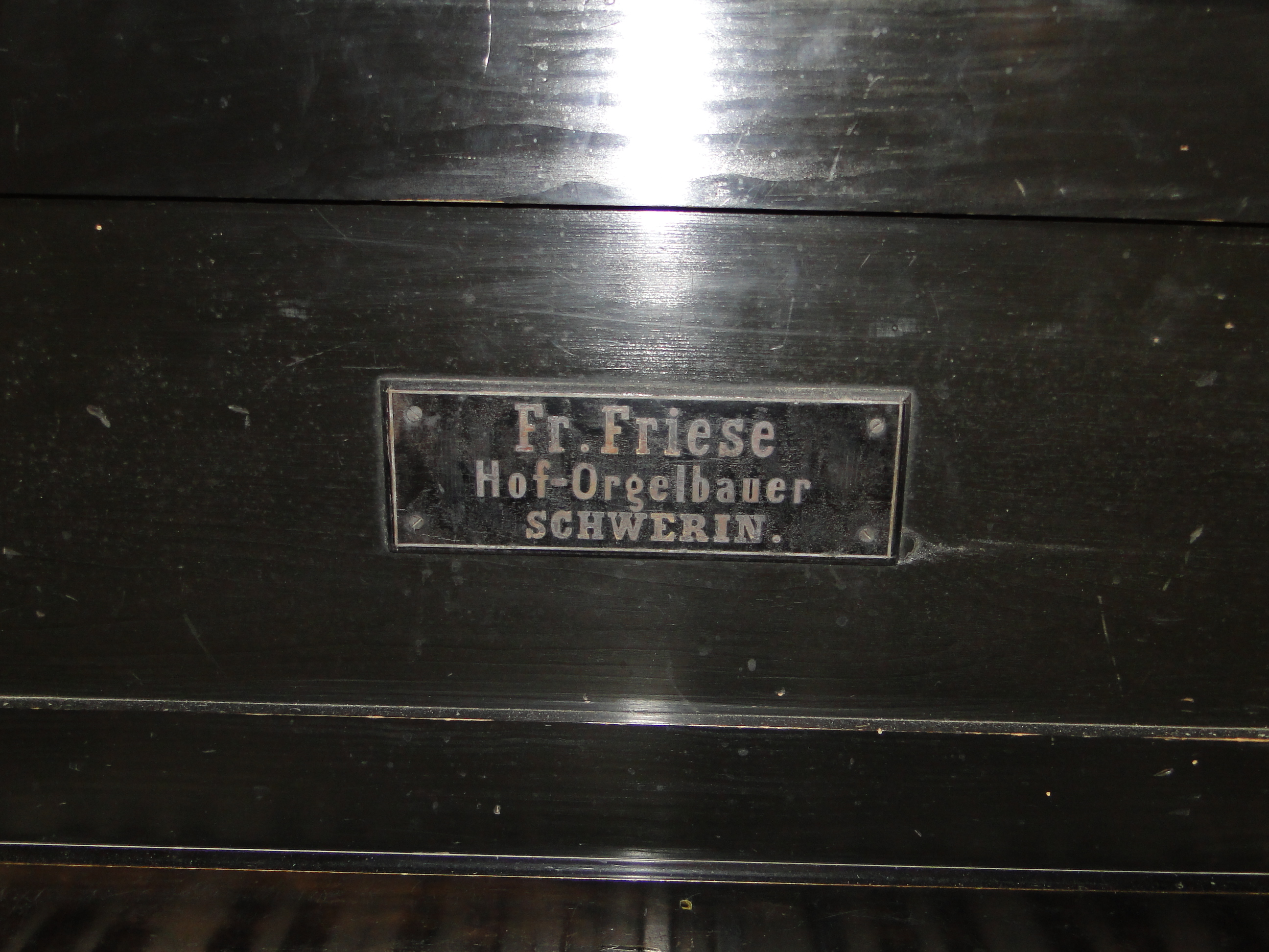 Church in Goldberg, district Ludwigslust-Parchim, Mecklenburg-Vorpommern, Germany